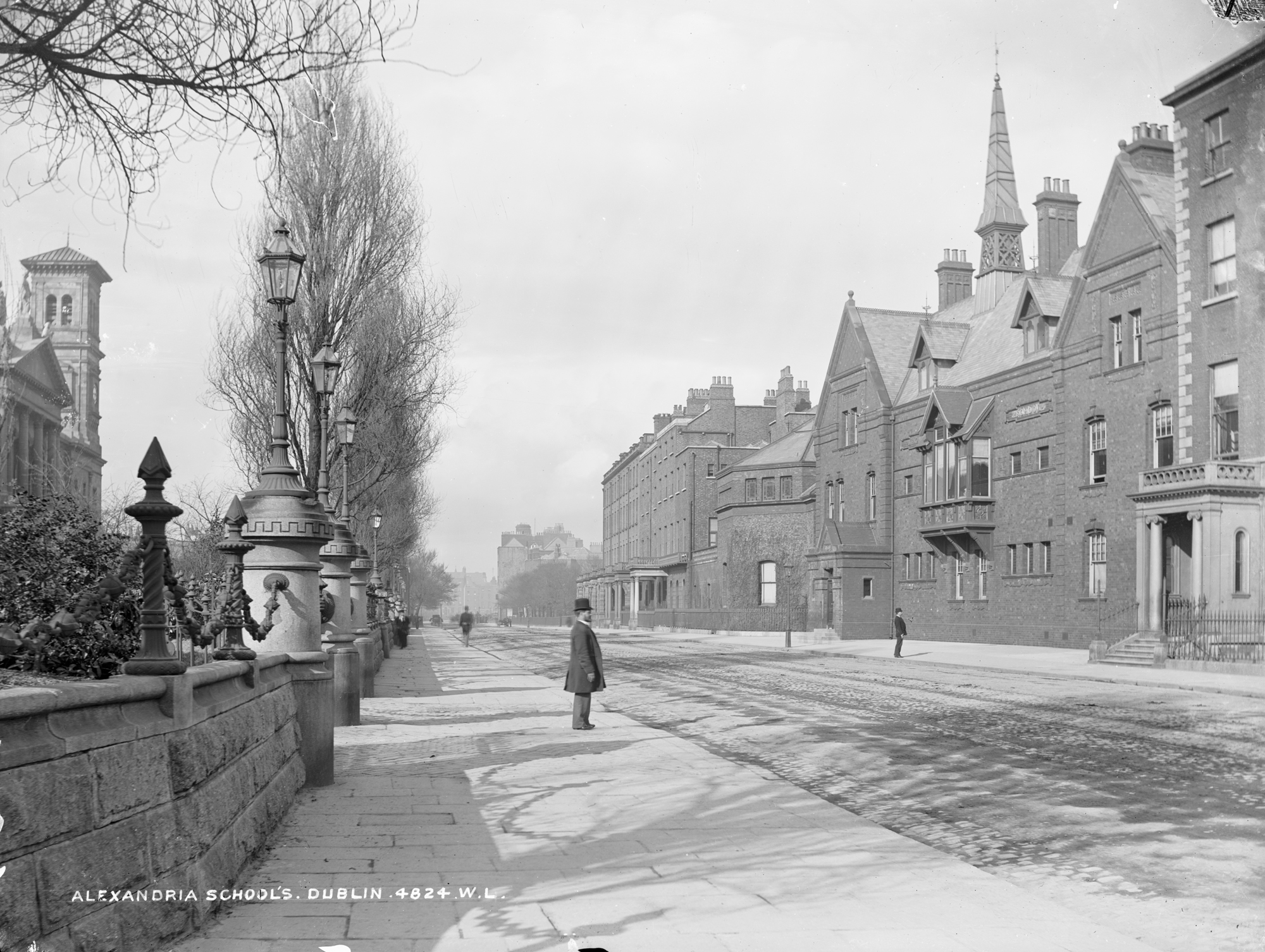 Alexandra Schools on a much-changed Earlsfort Terrace in Dublin... The buildings on the right are Alexandra College which was founded in 1874 at No.6 Earlsfort Terrace. By 1879, a new hall and theater was constructed alongside. Over time, they acquired several more houses and by 1889 a new building by William Kaye-Parry was constructed next door to the college as Alexandra School. In 1972, the school and college relocated to Dartry and the entire site cleared – by this time, it was almost all of one side of Earlsfort Terrace. The site sat empty for some years before being developed as a hotel and office complex. A building by Lanyon, Lynn & Lanyon at No.12 was also demolished at this time. The building on the left was was built by the The Dublin Exhibition Palace and Winter Garden Company for the 1865 exhibition - The heir to the throne, Albert Edward, Prince of Wales, to rapturous enthusiasm, performed the grand opening, on 9 May 1865. In all a huge 930,000 visitors attended the Exhibition between 9 May and 9 November. The Company arranged special railway and other concessions and the Palace was equipped with a telegraph centre, post office branch, railway office, and facilities for a large number of international newspapers. Many thanks to [/photos/gnmcauley/ Niall McAuley] [/photos/75556178@N05/ Inverarra] [/photos/eyelightfilms/ eyelightfilms] [/photos/8468254@N02/ derangedlemur] [/photos/87929309@N02/ D.G-S] and [/photos/129555378@N07/ sharon.corbet] for their valued contributions. Photographer: Robert French Collection: The Lawrence Photograph Collection Date: Circa 1890 NLI Ref: L_ROY_04824 You can also view this image, and many thousands of others, on the NLI’s catalogue at